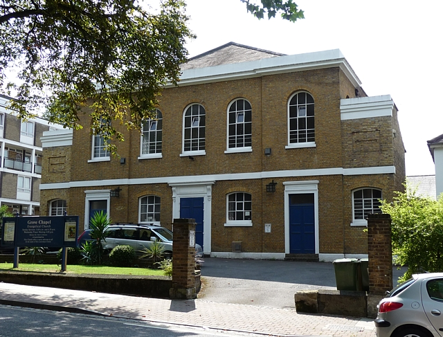 Grove Chapel, Camberwell Grove. Of 1819, by David Roper. A restrained late Georgian facade. Grade II listed.